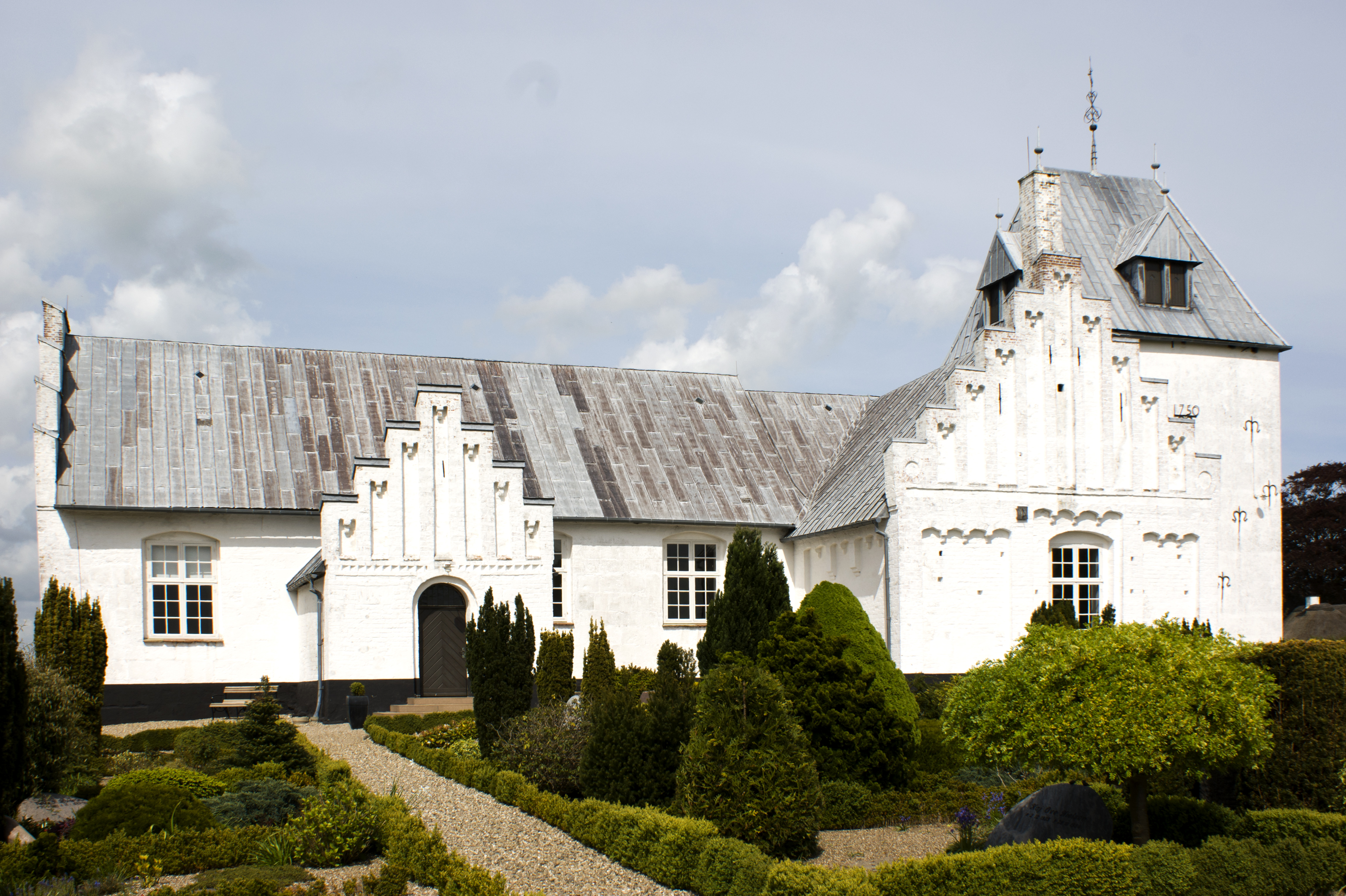 Halk church near Haderslev in Denmark. The church is seeing from the south.